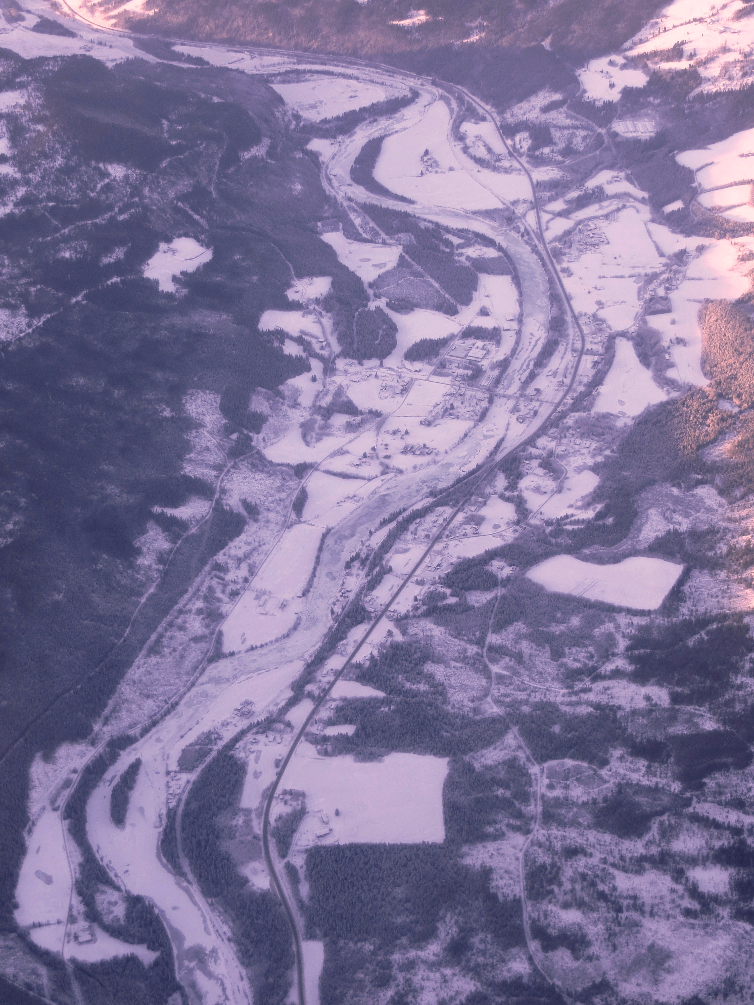 Aerial view from the east towards west, over Midtre Gauldal municipality, Sør-Trøndelag county - Norway. The municipality is located around the central part of the river Gaula.